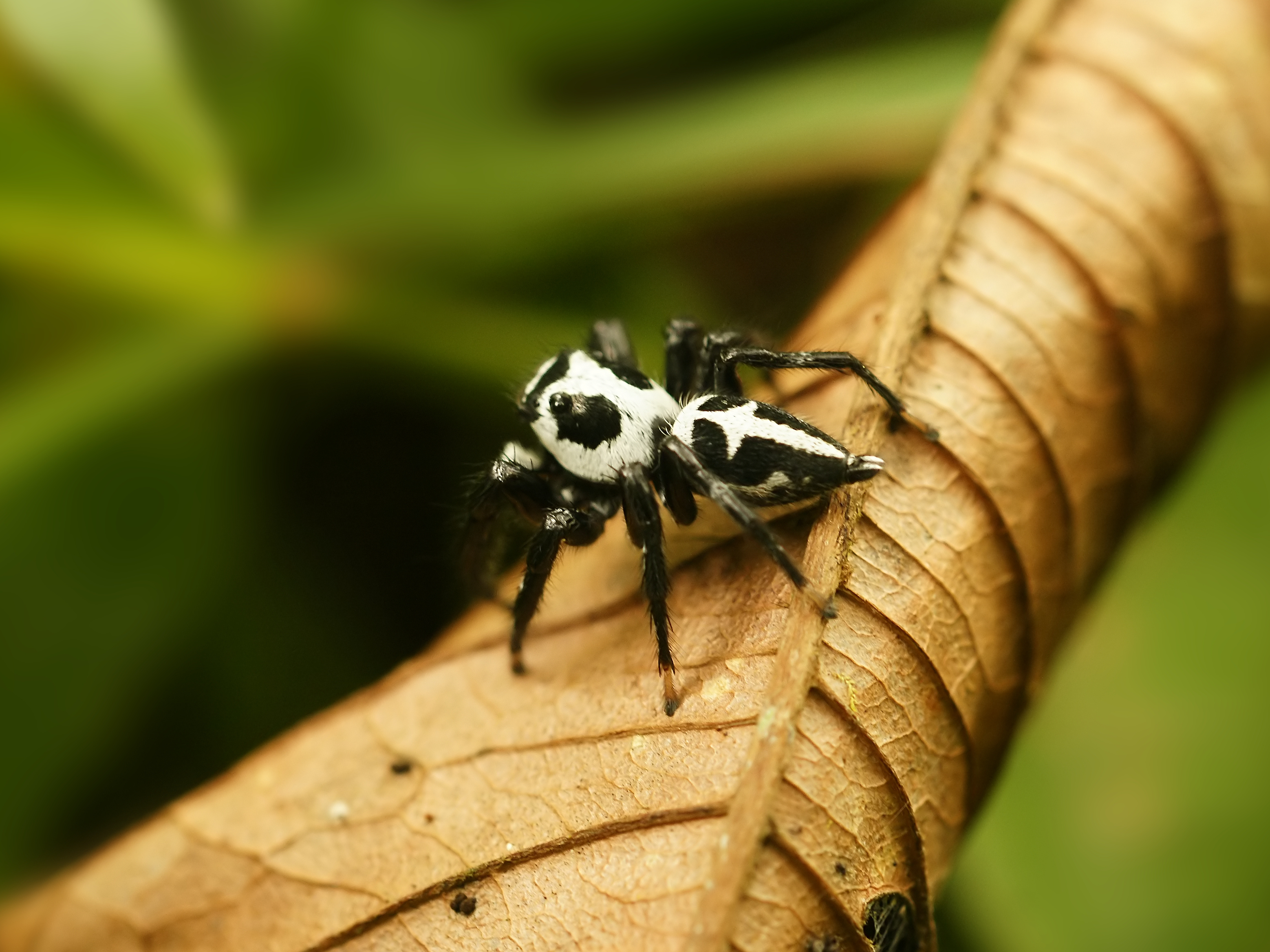 Endemic jumping spider at Rara Avis, Costa Rica